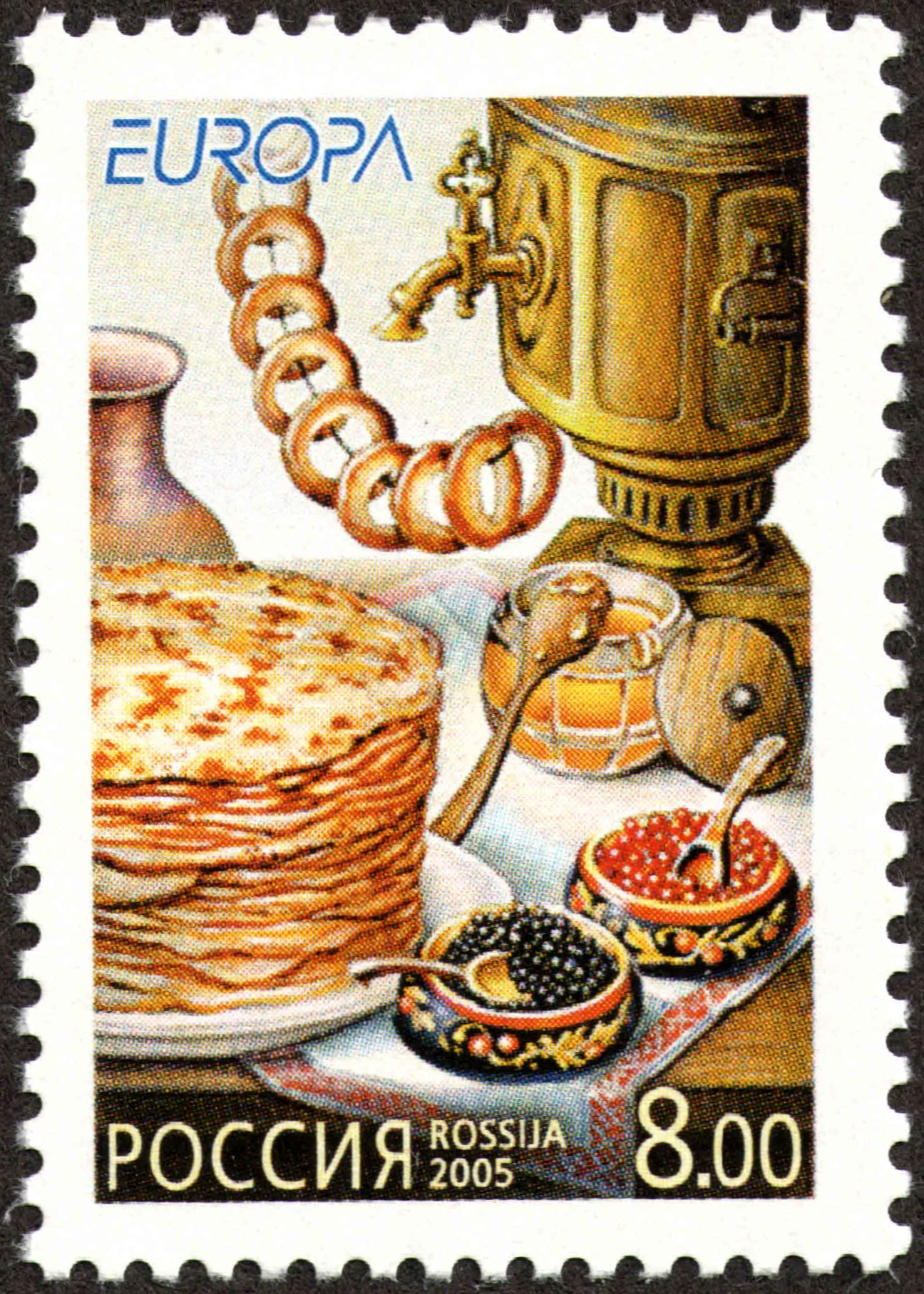 Stamps of Russia. Gastronomy. Issue by "Europa" programme, 2005